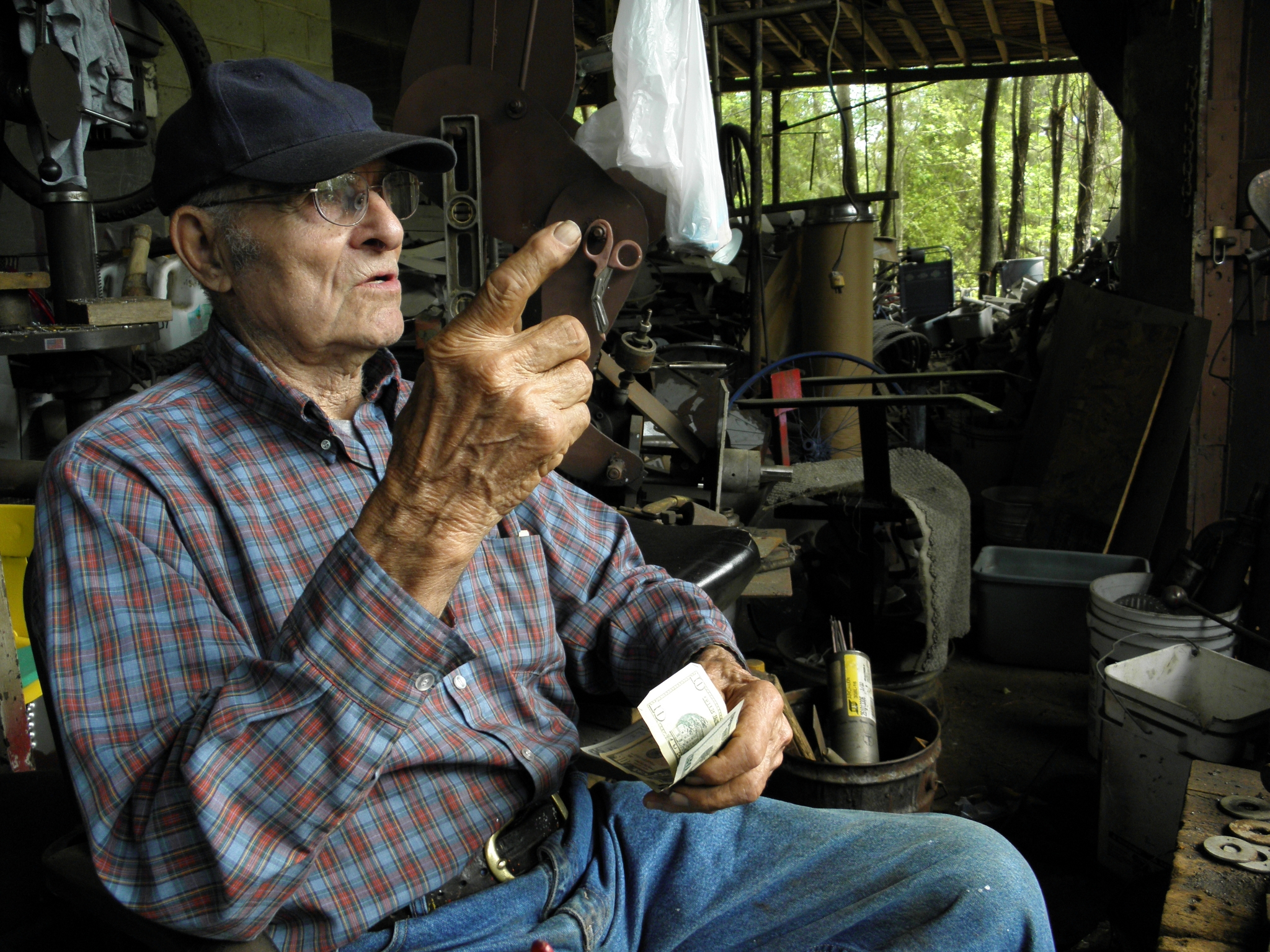 A photograph of the late artist, sculptor, and mechanical virtuoso Vollis Simpson of Lucama, NC. Taken at his shop/studio on April 19, 2011, while visiting with Mr. Simpson. User:Teelaklaatu/Vollis simpson